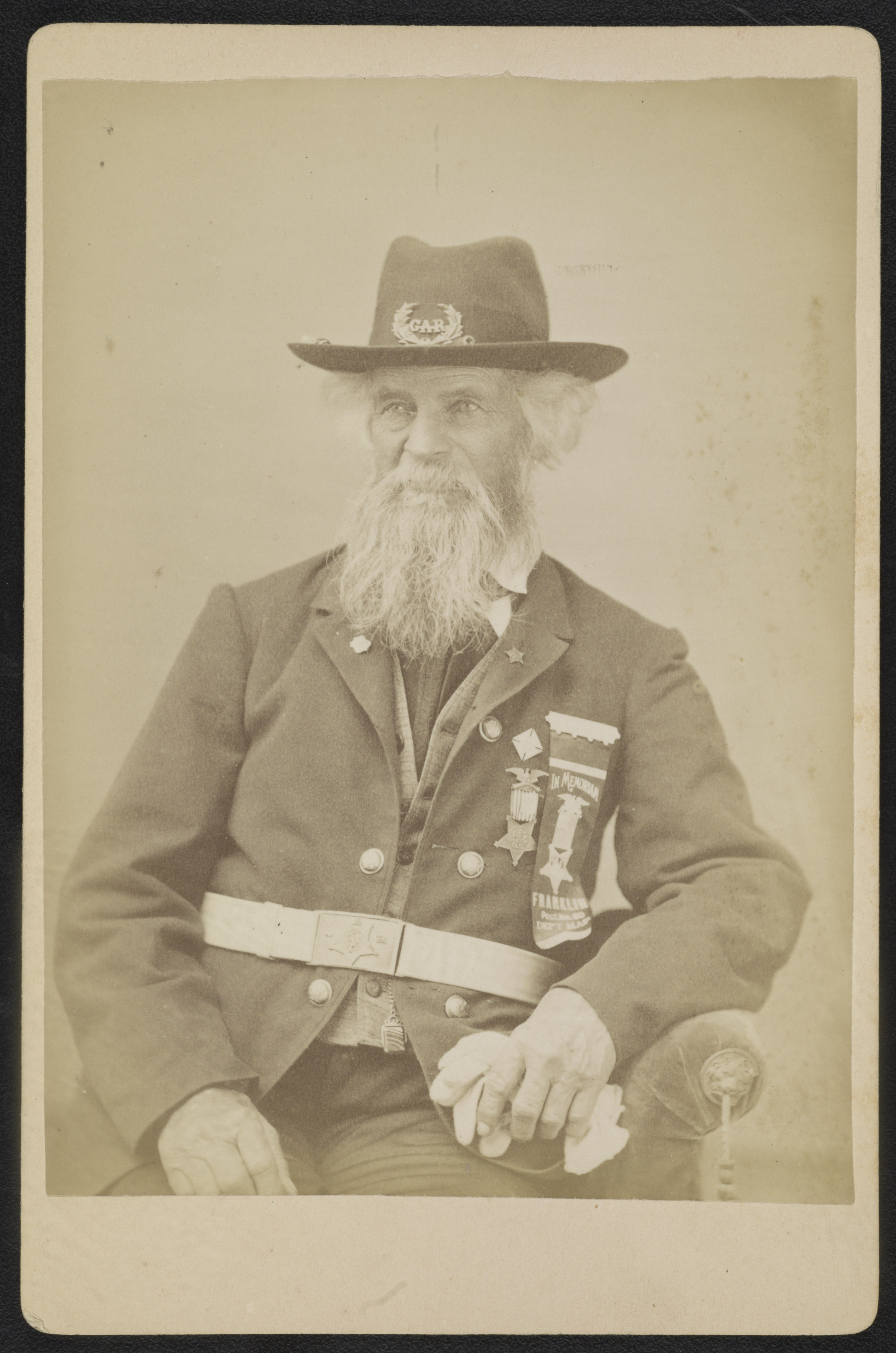 Title: William Field The oldest G.A.R. veteran that served through the war / / Photographed by K. Adams, Franklin. Abstract/medium: 1 photograph : albumen print on card mount ; mount 17 x 11 cm (cabinet card format)